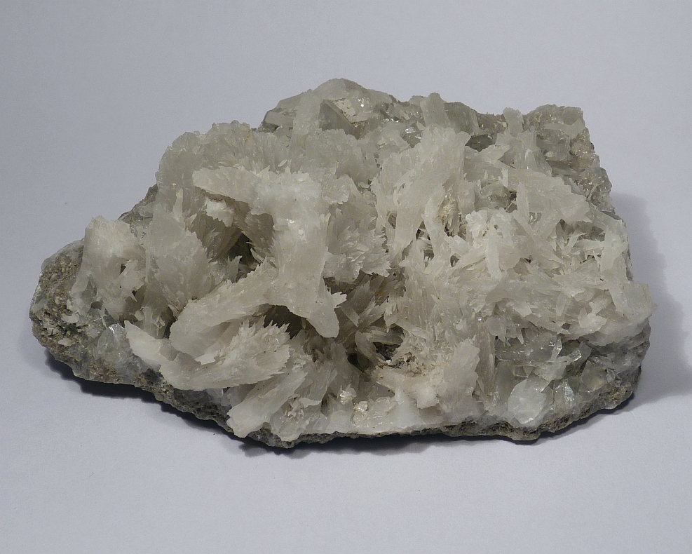 Strontianite Locality: Mathilde Mine, Ascheberg, Münsterland, North Rhine-Westphalia, Germany Specimen size 9 x 6 cm. Specimen and photo Leon Hupperichs.